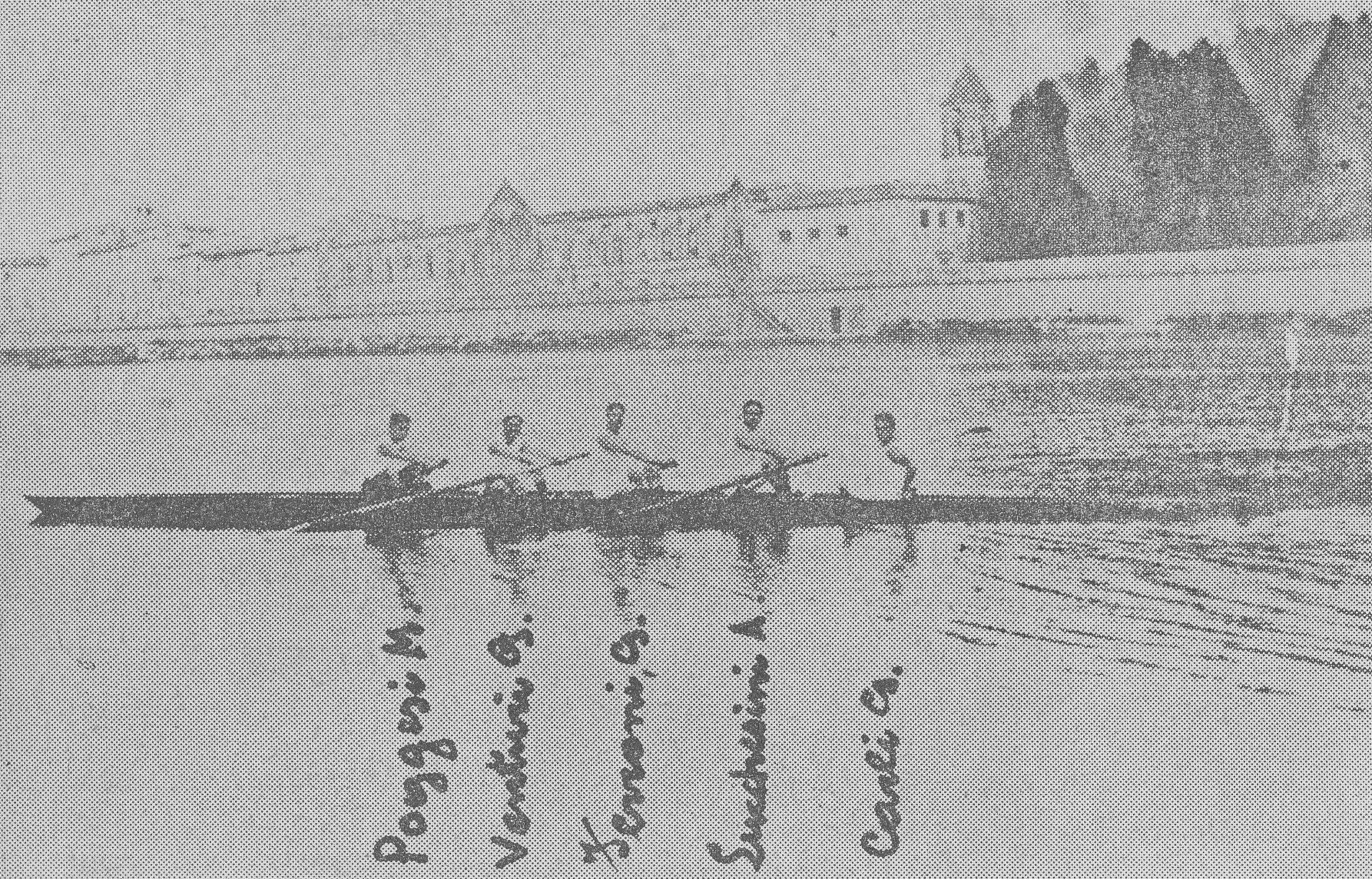 First 4+ shell of "Canottieri Arno", the most important rowing club in Pisa.